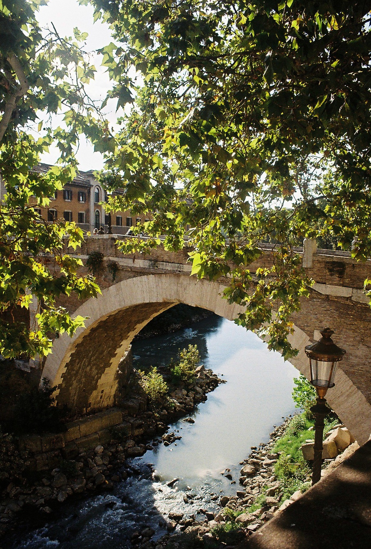 Pons Fabricius